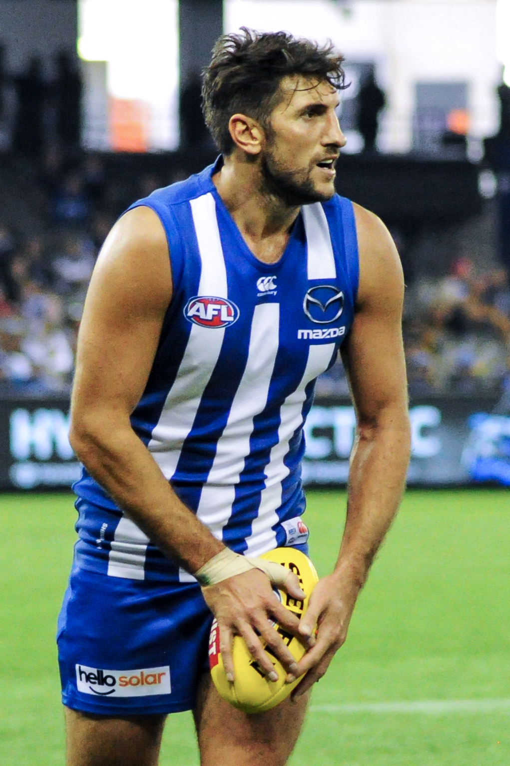 Jarrad Waite during the AFL round five match between North Melbourne and Hawthorn on Sunday, 22 April 2018 at Etihad Stadium in Melbourne, Victoria.